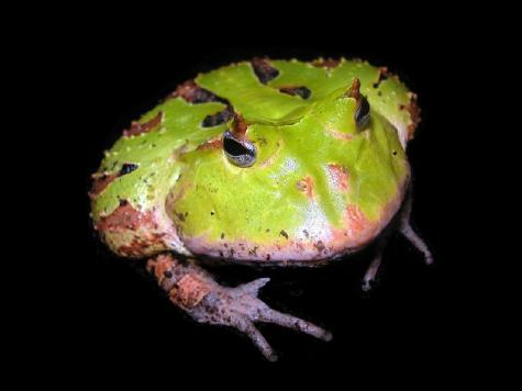 Ceratophrys cornuta